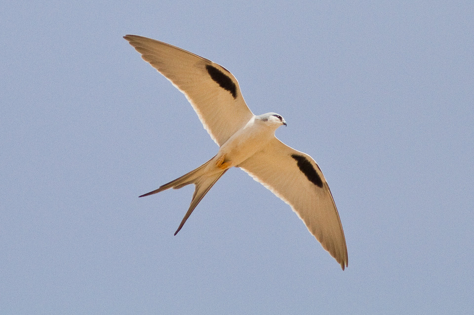 A Scissor-tailed Kite flying in Far North Region, Cameroon.